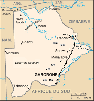 Mining resources in Botswana. Au: Gold; C: Coal; Cu: Copper; Co:Cobalt; Dm: Diamonds; Gm:Gemstones; Mn:Manganese; Ni:Nickel